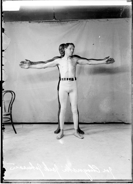 Full-length group portrait of Jack Johnson, African American pugilist, standing behind pugilist Joe Choynski in front of a light-colored backdrop in a room in Chicago, Illinois. Both Johnson and Choynski are extending their arms at their sides.